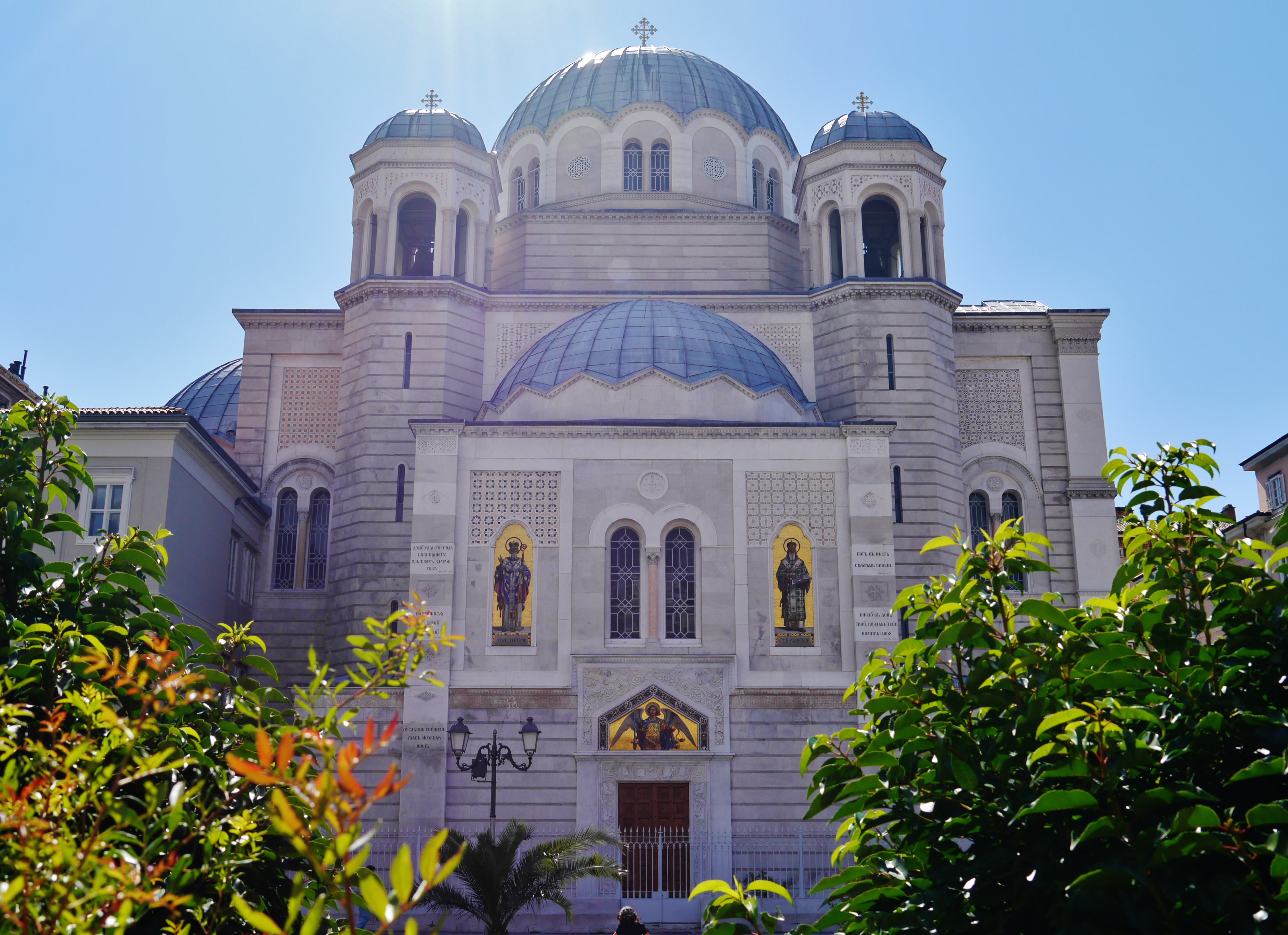 Serbian Orthodox Church San Spiridone, Trieste, Friuli-Venezia Giulia, Italy